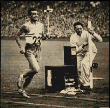 Delfo Cabrera is winning marathon at 1948 Olympic Summer Games (London). The photo was front page of Clarín, main Argentine newspaper, on August 14th, 1948.